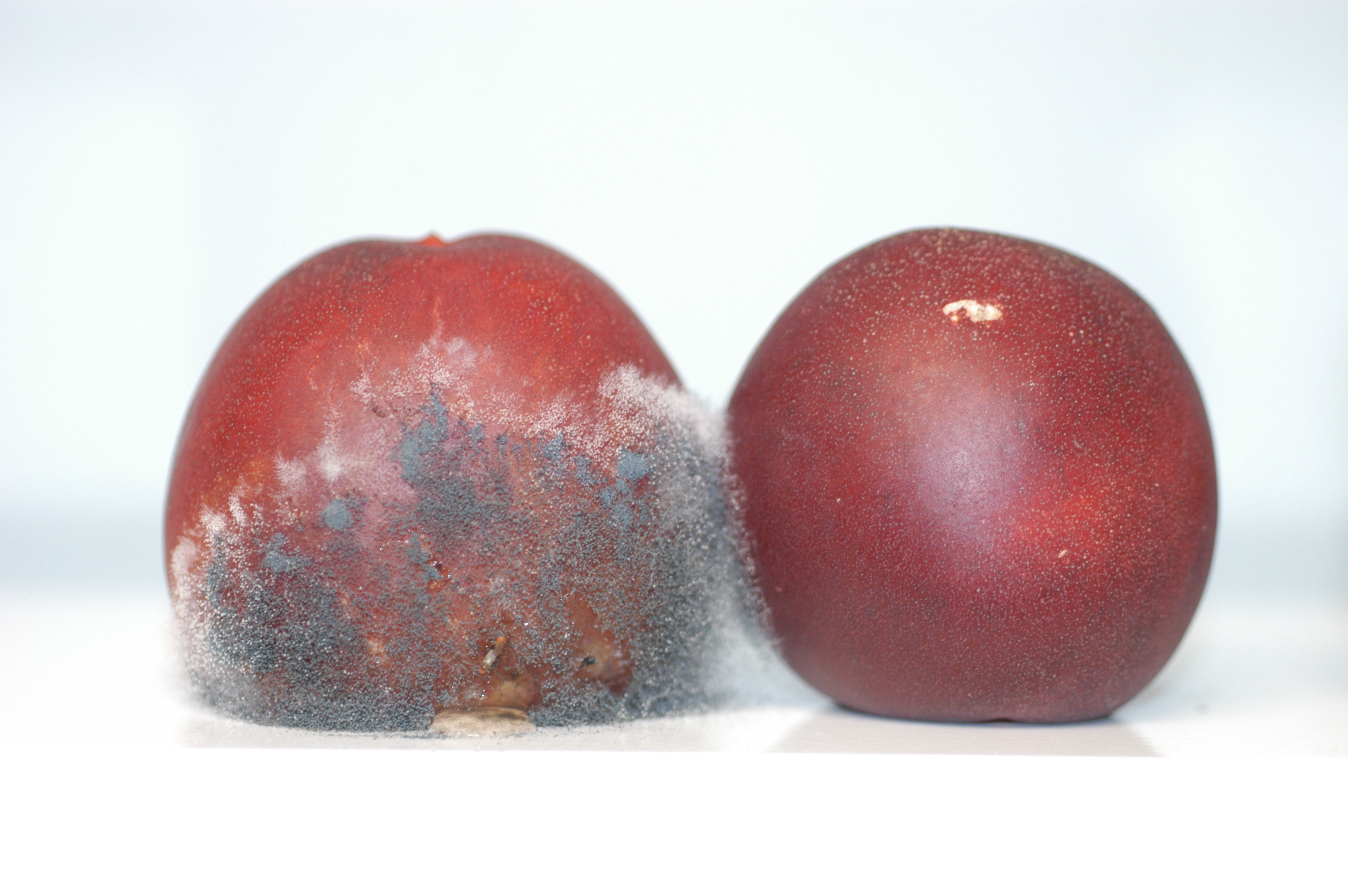 Mold on nectarines. Grown in less than 24 hours.